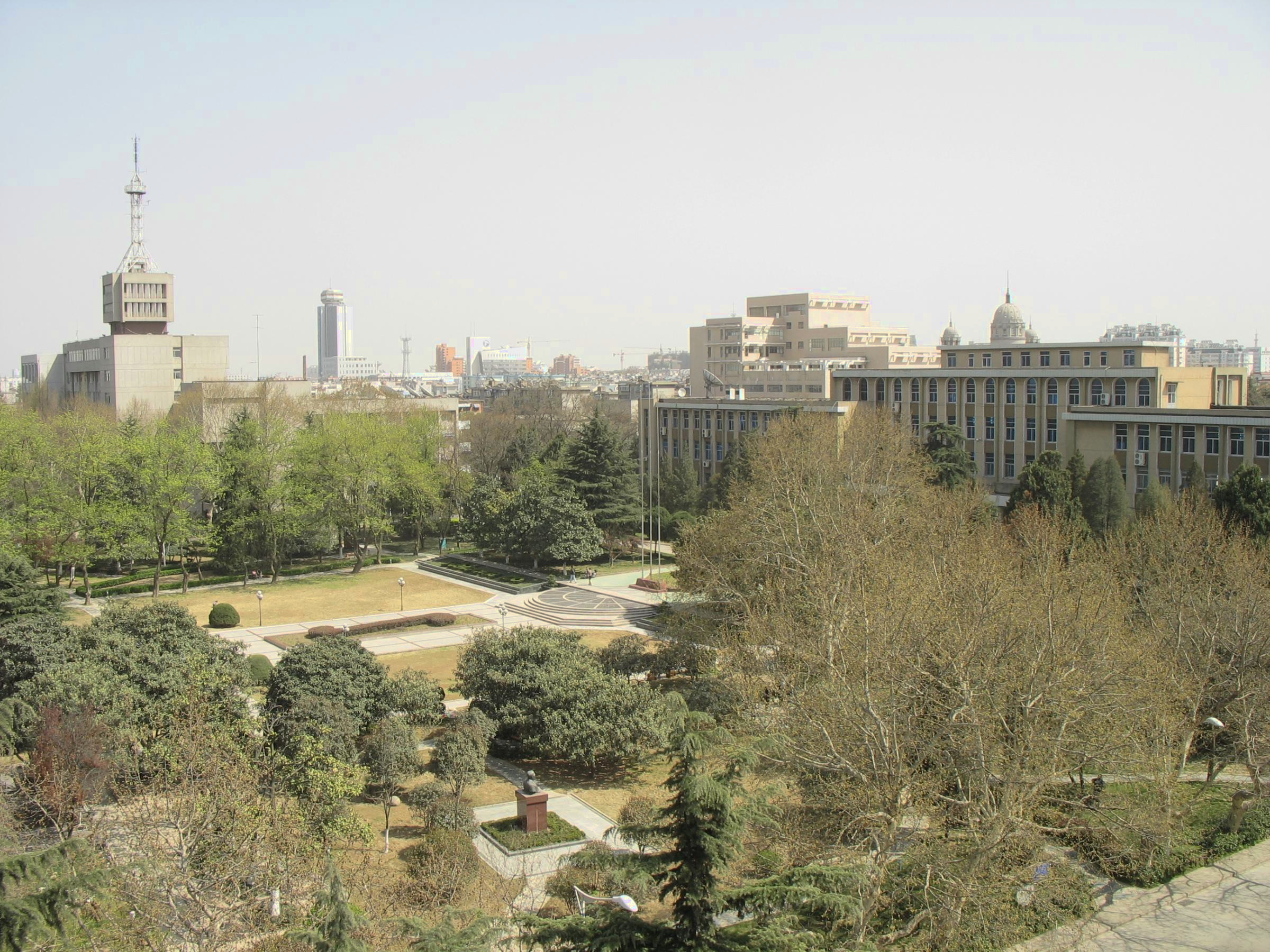 Teaching Building II, Library, etc... MIN, Baili 07:16, 4 February 2007 (UTC)